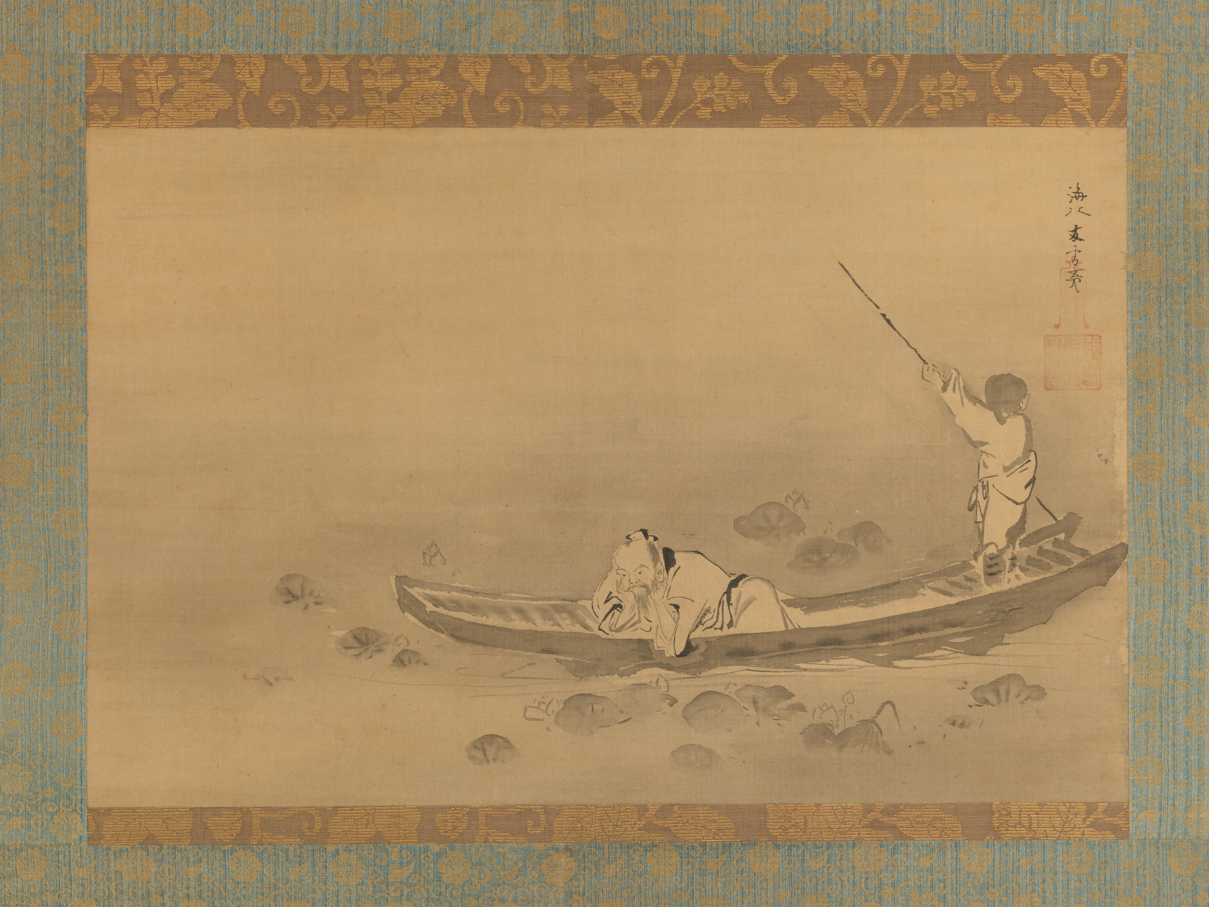 A bearded scholar props his elbows on the side of his boat and rests his chin in his hands, leaning over to catch a glimpse of lotuses scattered across the surface of a pond. He is recognizable as the Northern Song-dynasty philosopher Zhou Maoshu (Chinese: Zhou Dunyi, 1017–1073). A leading figure in early neo-Confucian thought, Zhou wrote, among other texts, the short essay “On the Love of the Lotus” (“Ai lian shuo”), in which he describes the lotus as a “man of virtue,” in contrast to the “hermitlike” chrysanthemum and the “aristocratic” peony. After the death of his father, Kaihō Yūshō (1533–1615), Yūsetsu operated a shop selling readymade pictures under the name “Chūzaemon.” Later, he received patronage of Tokugawa Iemitsu, the third shogun, and reverted to using the family name Kaihō.